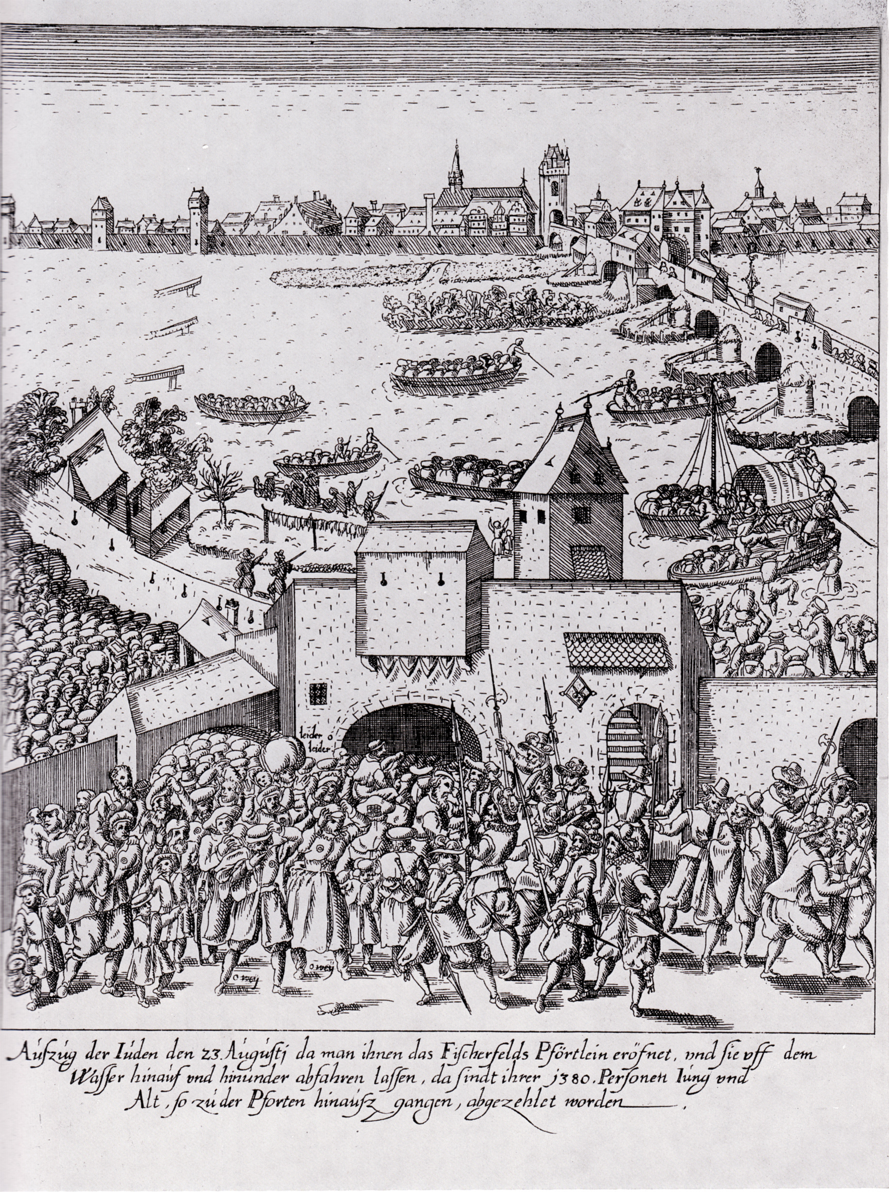 Fettmilch Riot: Expulsion of the jews from Frankfurt on August 23, 1614